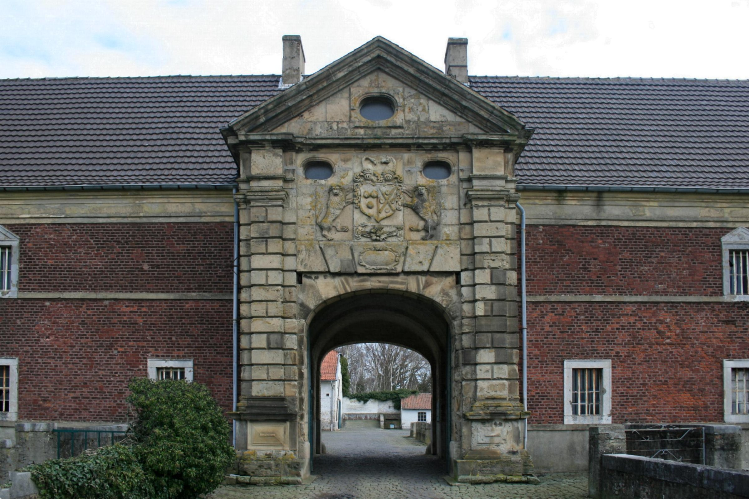 Cultural heritage monument No. 36 in Inden